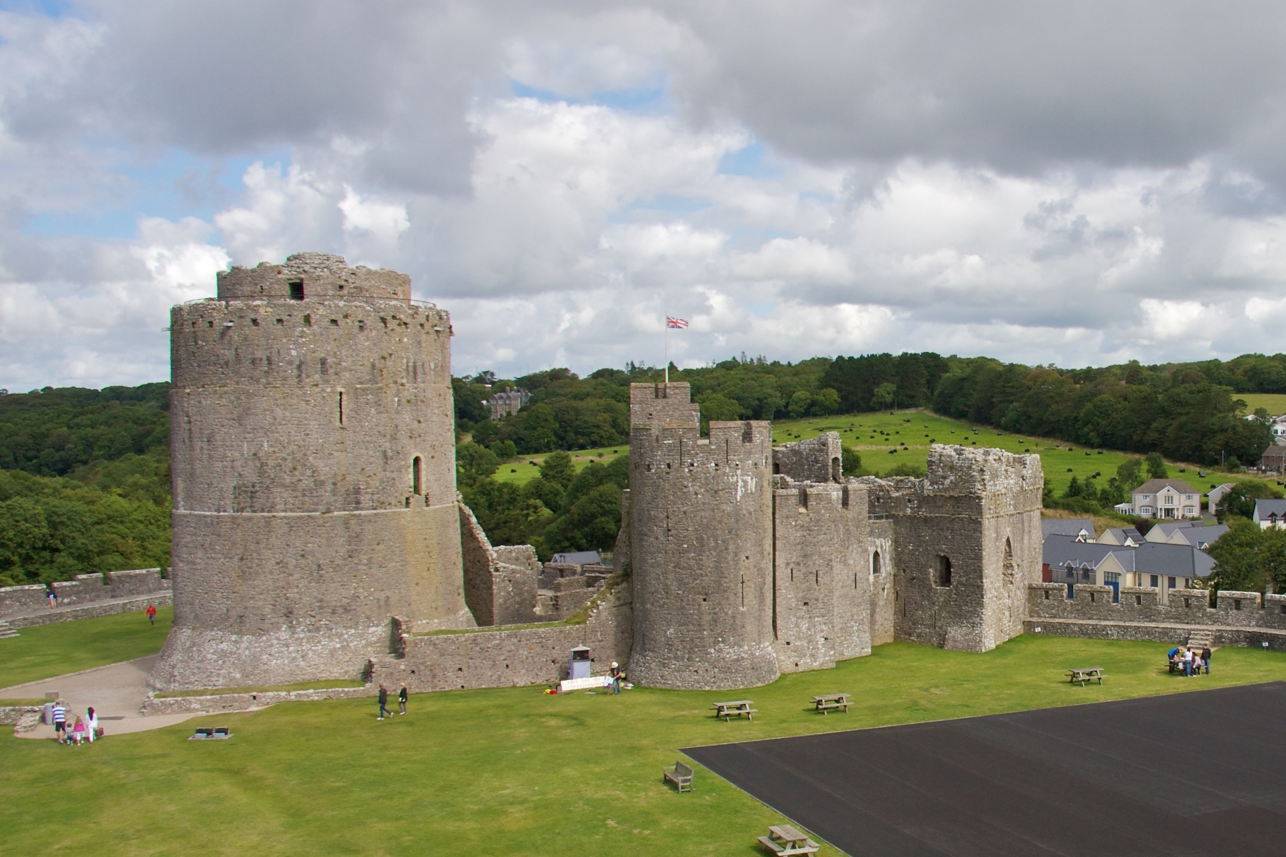 Pembroke Castle's outer ward seen from the south; the inner ward is behind the circular great tower next to the 'Prison Tower'.